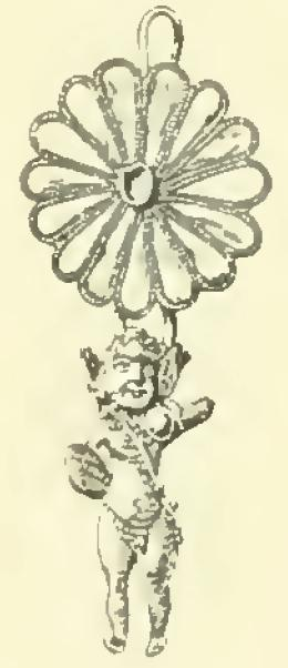 Gold earring.